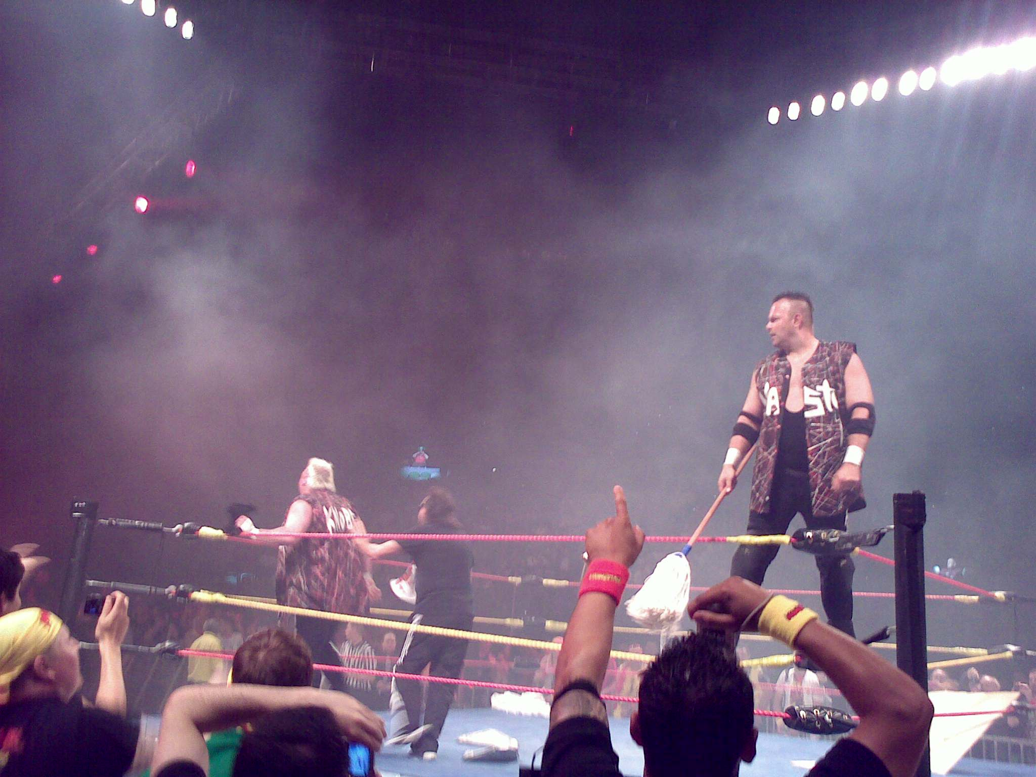 Celebrating the win. Yes Knobs can't manage to climb the ring post